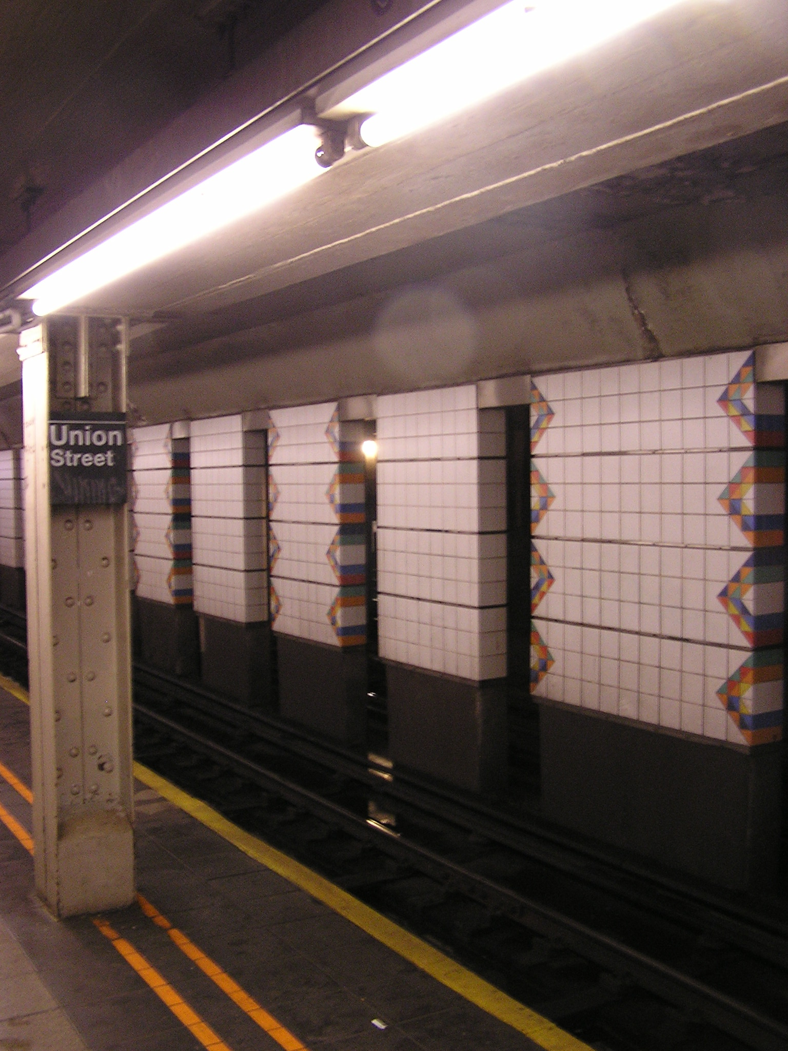 Union Street (BMT Fourth Avenue Line) track